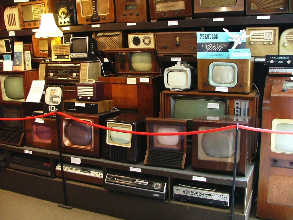 A display of old televisions, VCRs and radios in Amberley Working Museum, England.